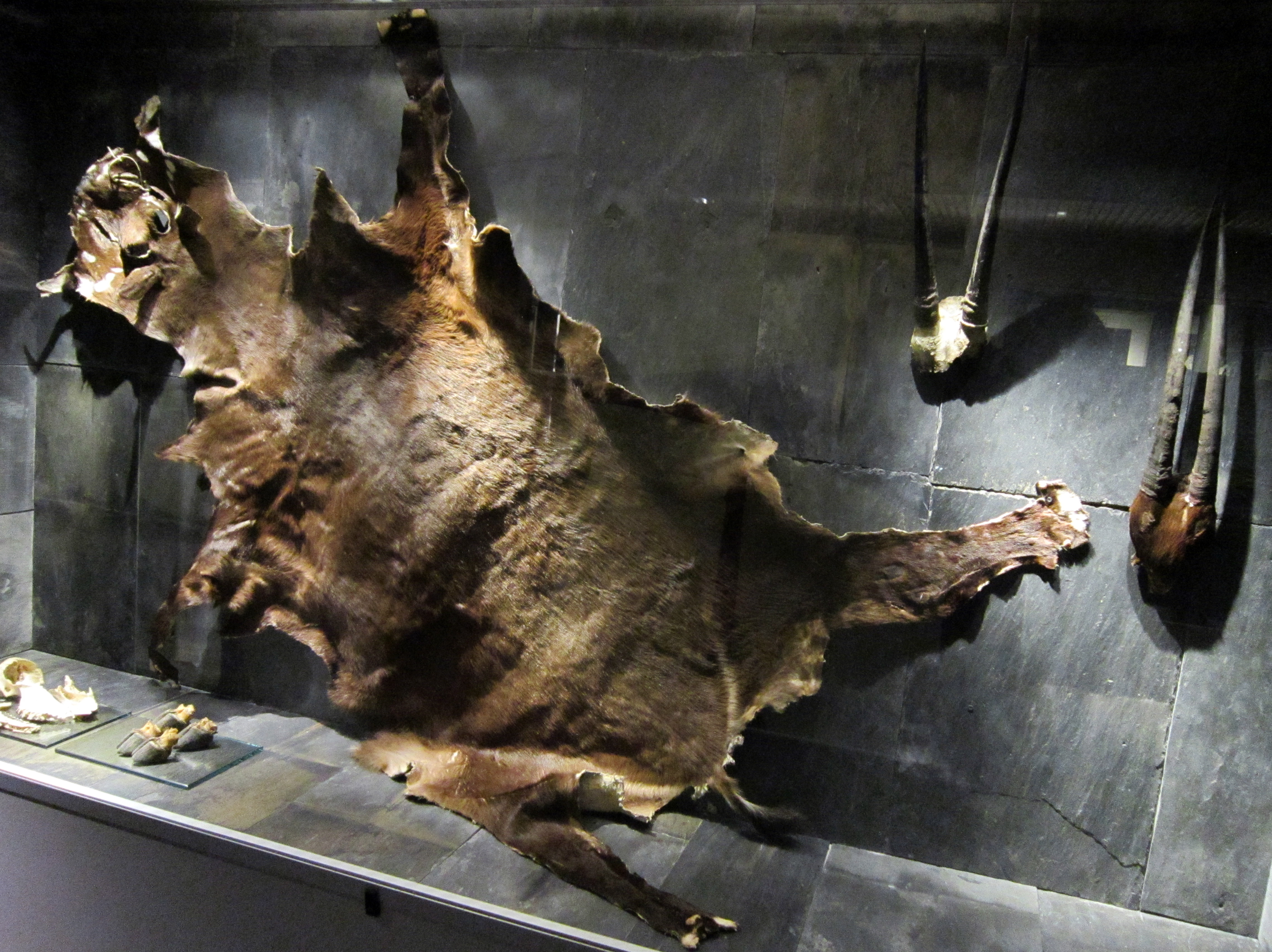 Saola skin and horns, some of the first known evidence of the existence of this species. Zoological Museum of Copenhagen.